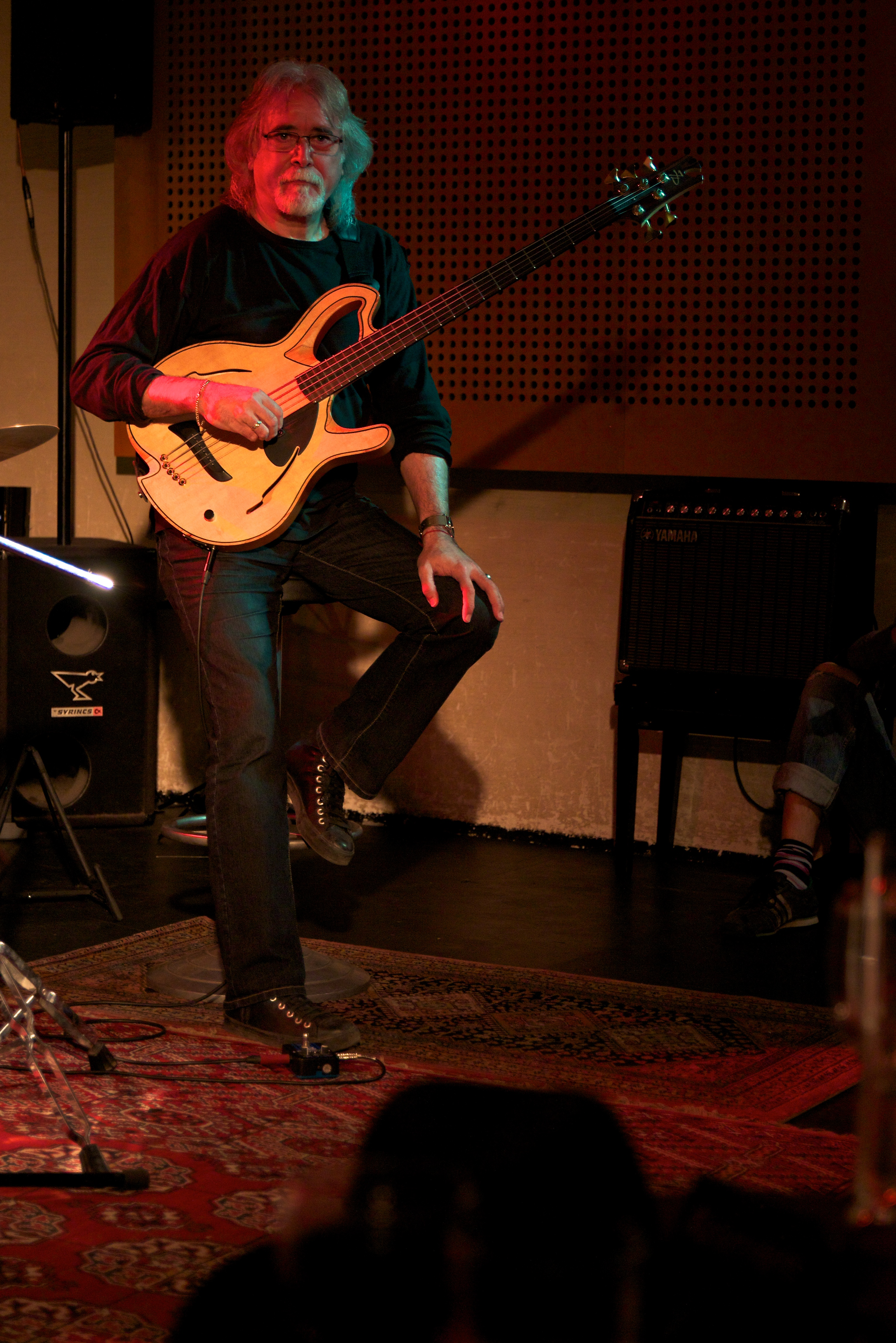 Highly acclaimed flamenco bassist Carles Benavent